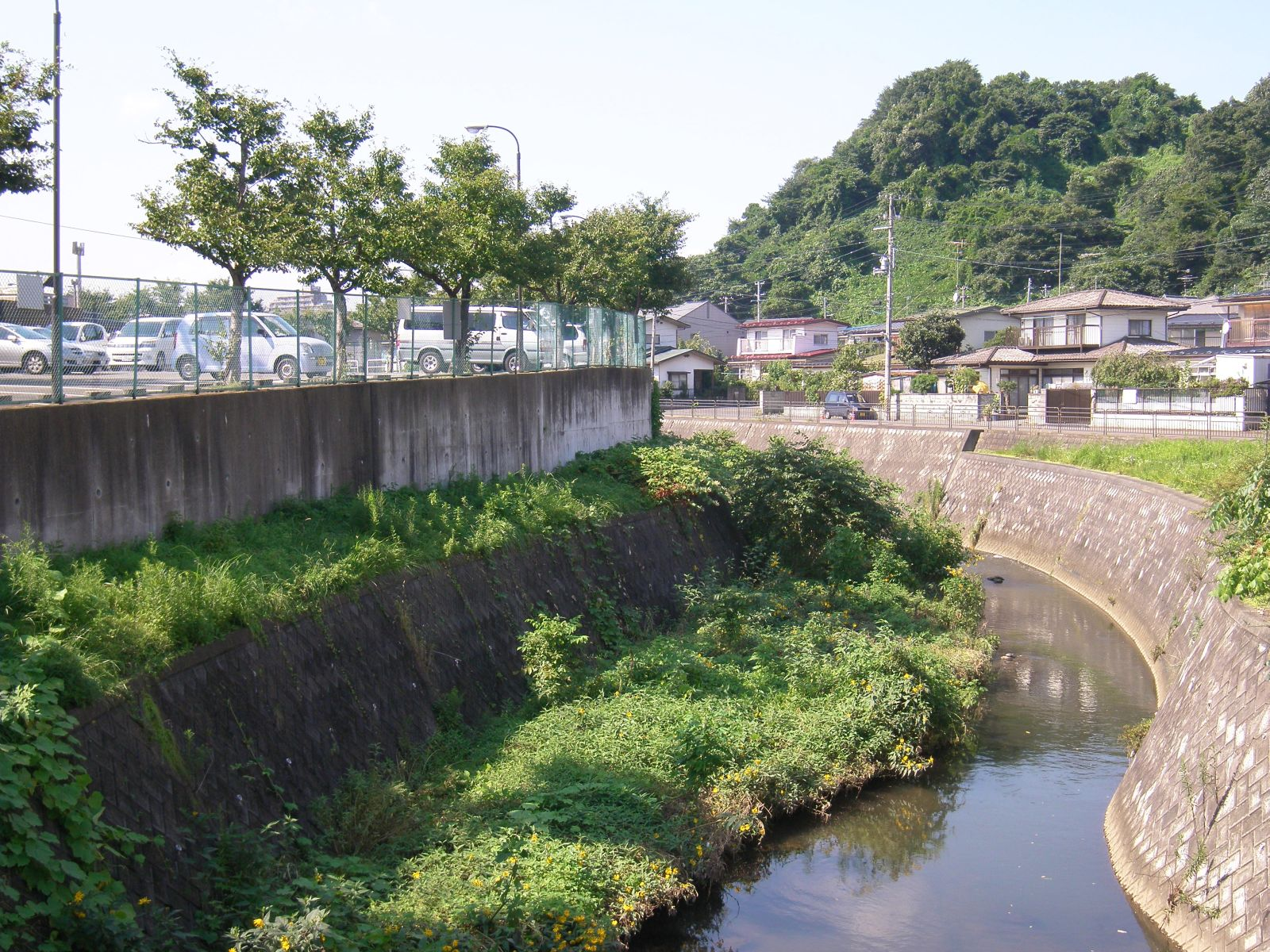 Yōgai River. Yamanotera 1 chōme, Izumi ward, Sendai, Miyagi prefecture, Japan. Northward from the Second Onome Bridge.